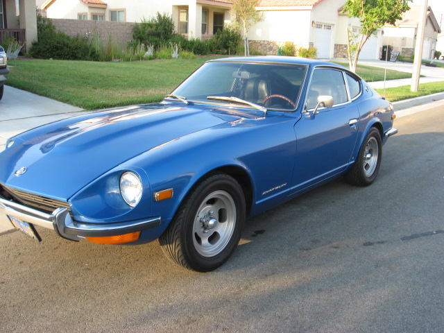 an orginal 1971 Datsun 240Z